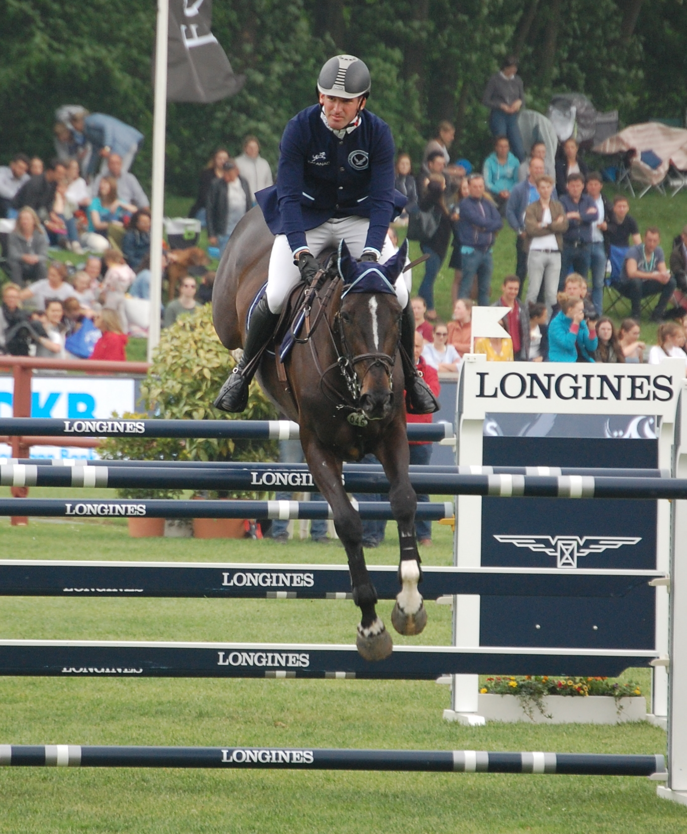 German rider Philipp Weishaupt and Asathir (team rider of the Berlin Eagles), Global Champions League of Hamburg, 2018.